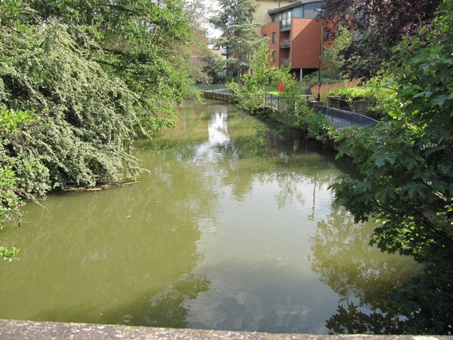 Castle Mill Stream, Oxford, England. View of the mill stream which runs by Oxford Castle from the bridge on Park End Street.